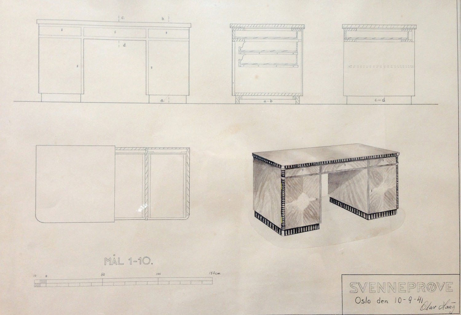 Artwork